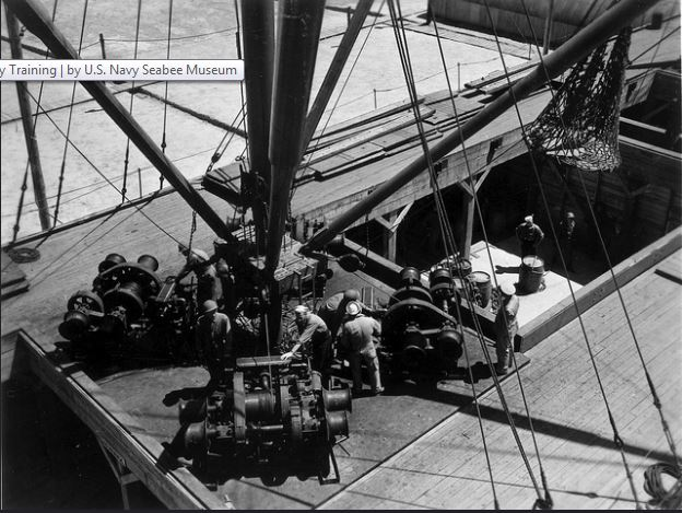 Stevedore training on the mock ship at the Seabee's Camp Allen, 1943